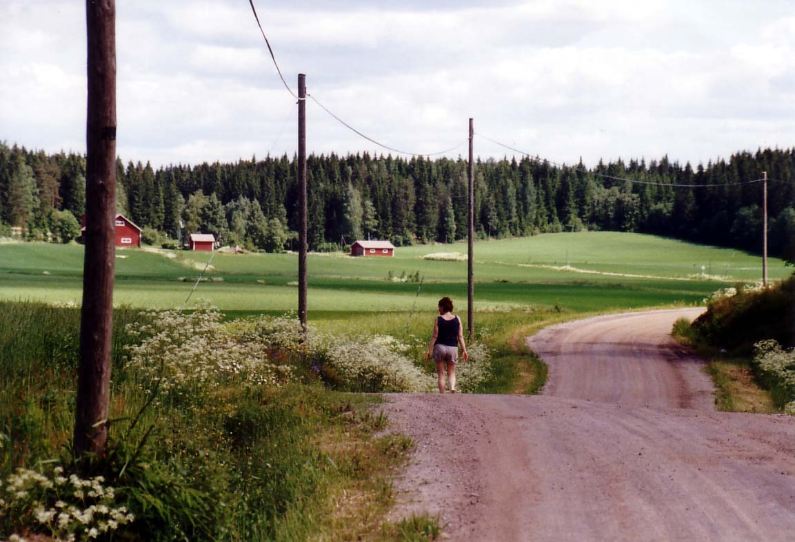 A woman walking along a gravel road in rural Lappeenranta, Finland